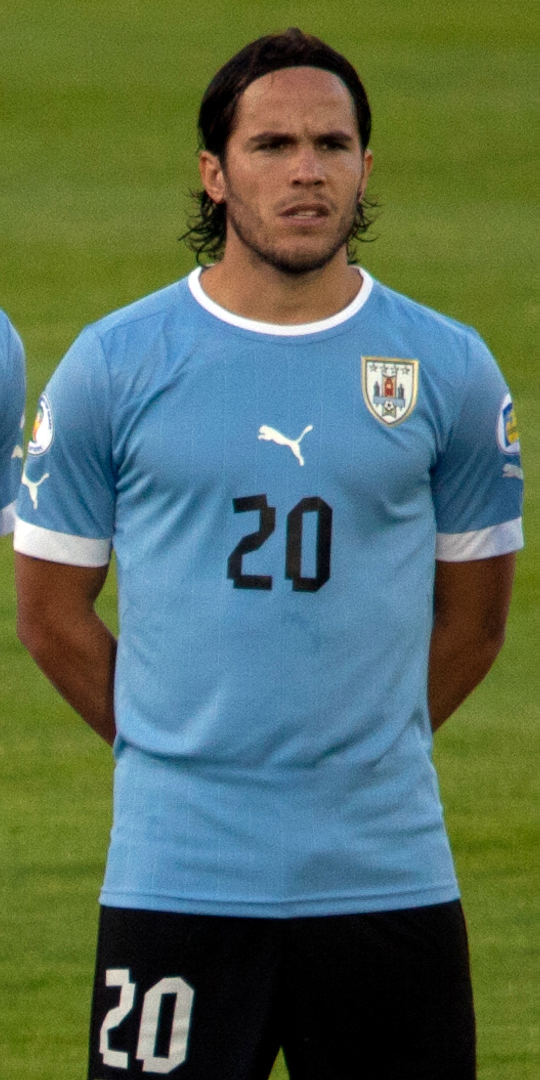 Álvaro Rafael González before match between Uruguay NT and Chile NT on 11/11/2011